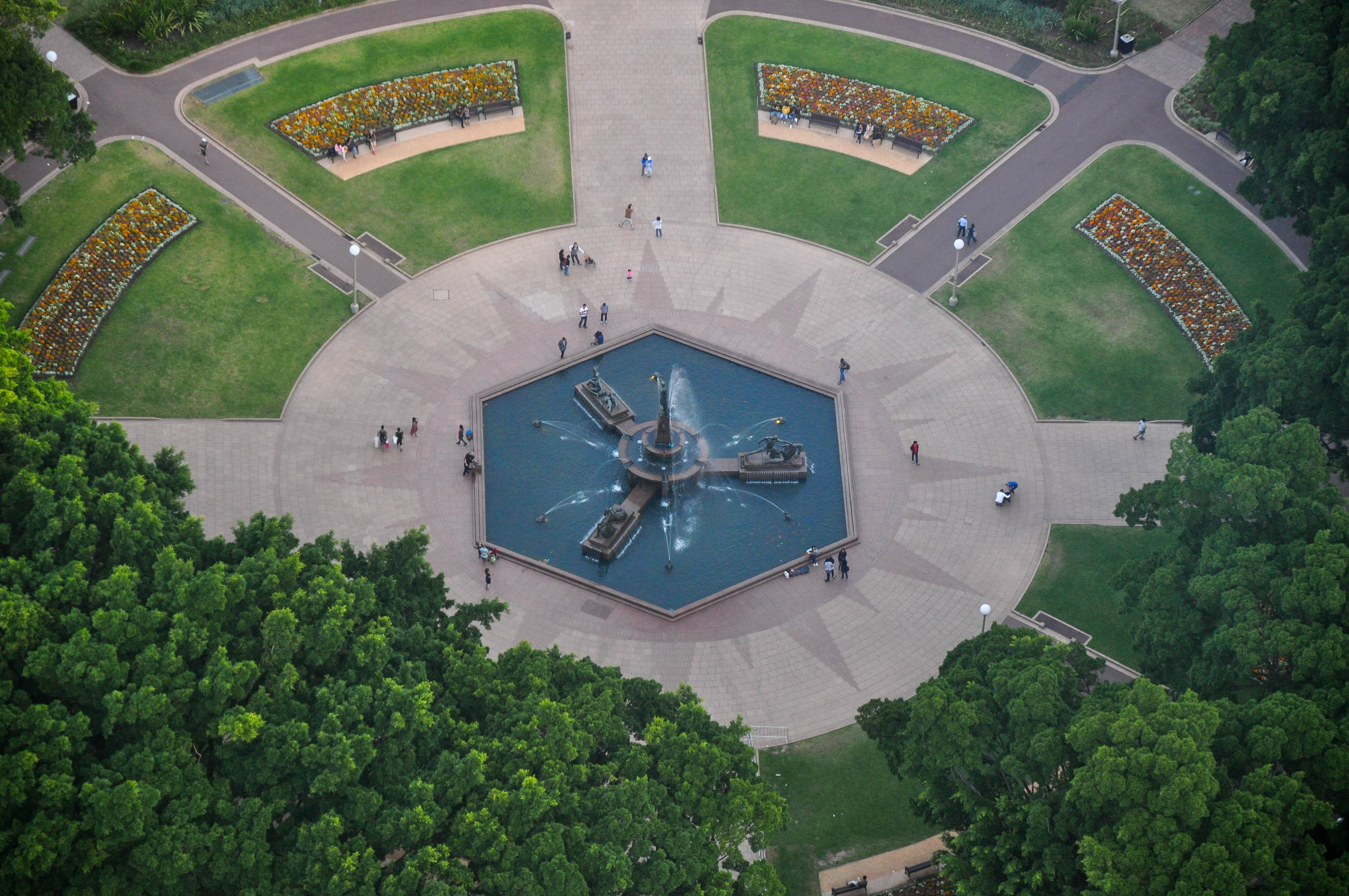 Archibald Fountain in Sydney's Hyde Park